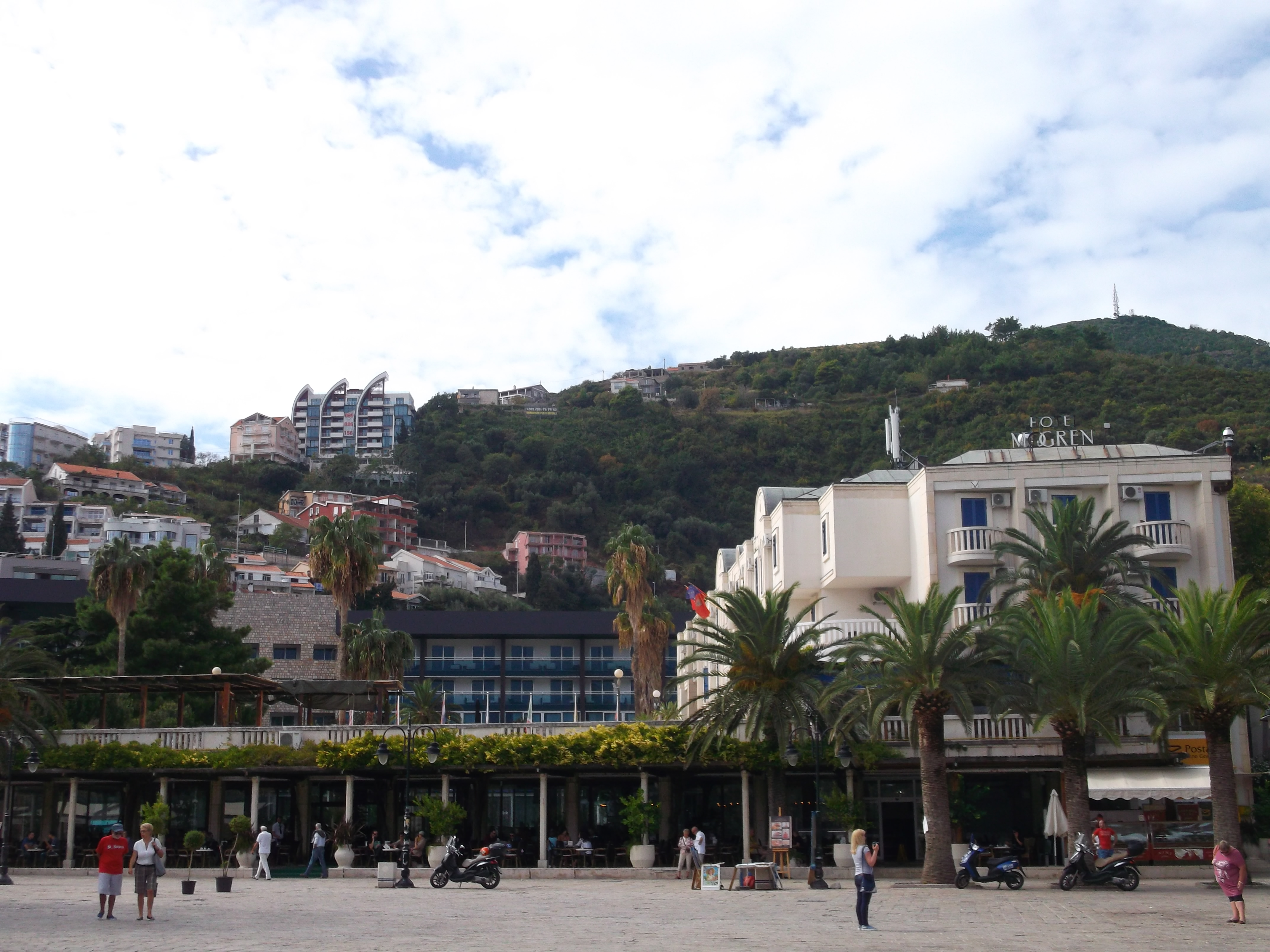 Old Town, Budva, Montenegro